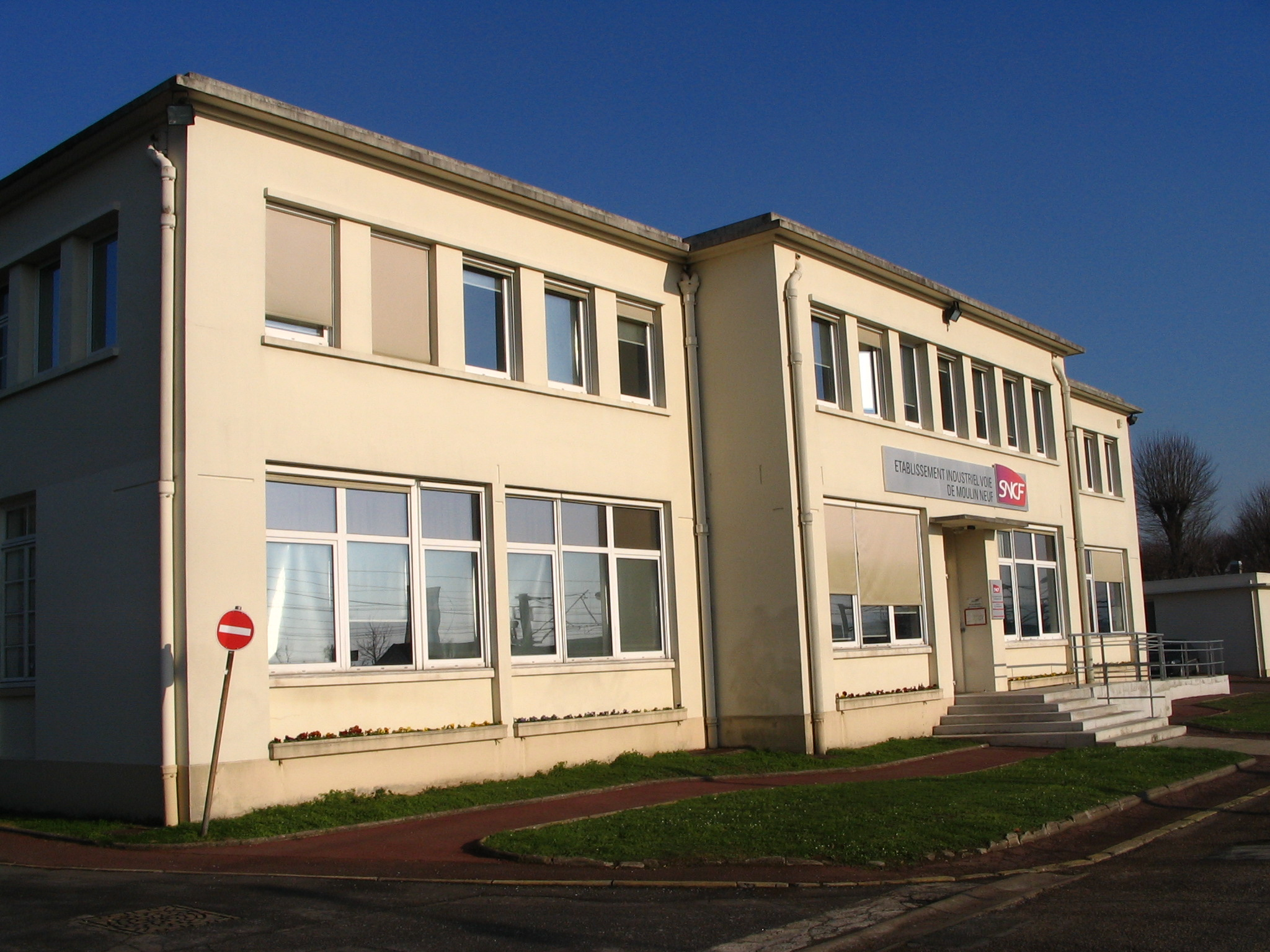 The SNCF industrial site of Moulin-Neuf, in Chambly, Oise, France.